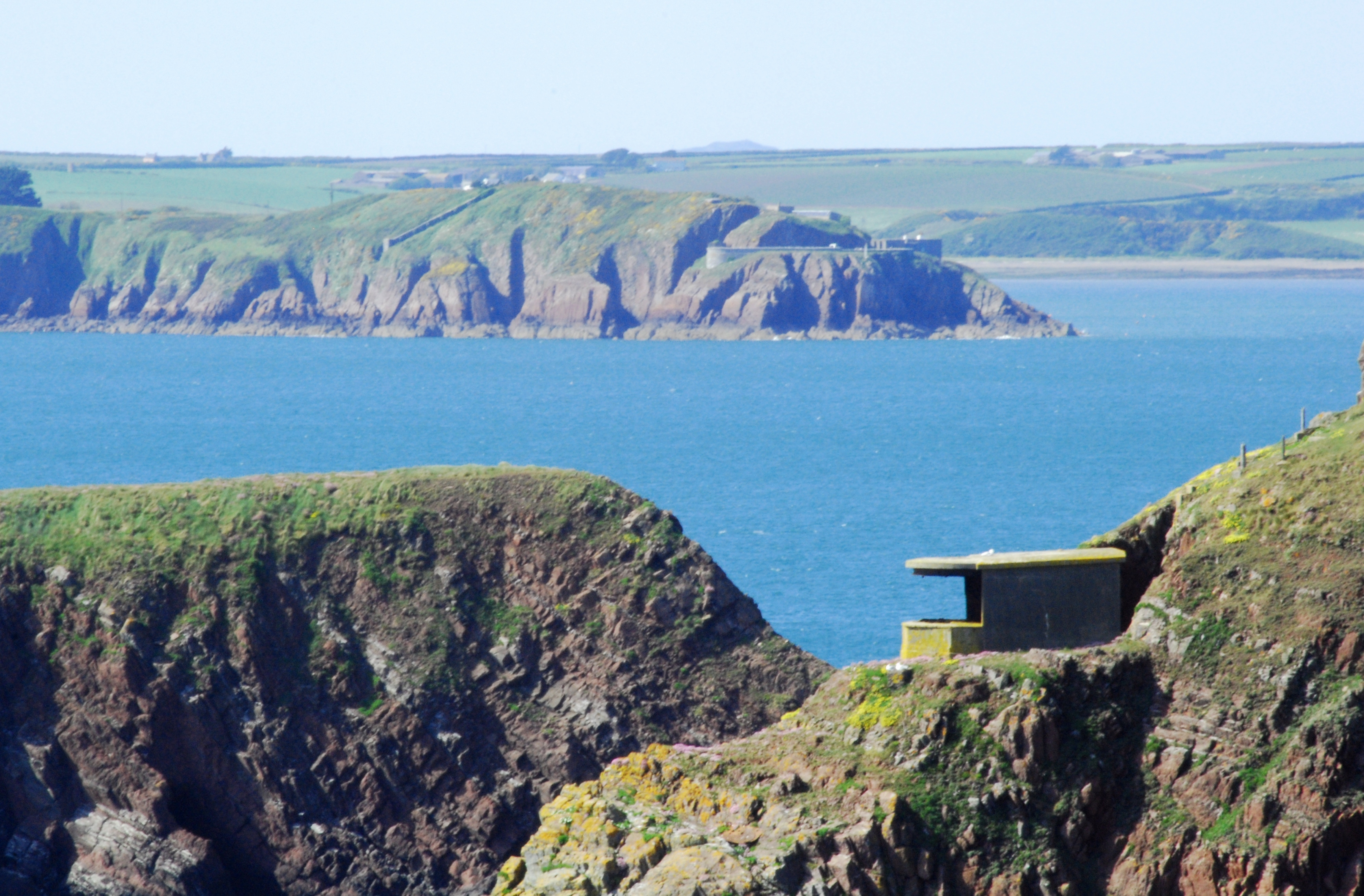 Part of the Pembrokeshire National Trust Coastal Path. The area was heavily fortified and many WW2 and earlier emplacements survive.